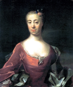 Portrait of Sara Elisabeth von Linné (born Moraea) made by Johan Henrik Scheffel for her wedding to Carl Linnaeus (Carl von Linné) in 1739. She is depicted in her wedding dress.